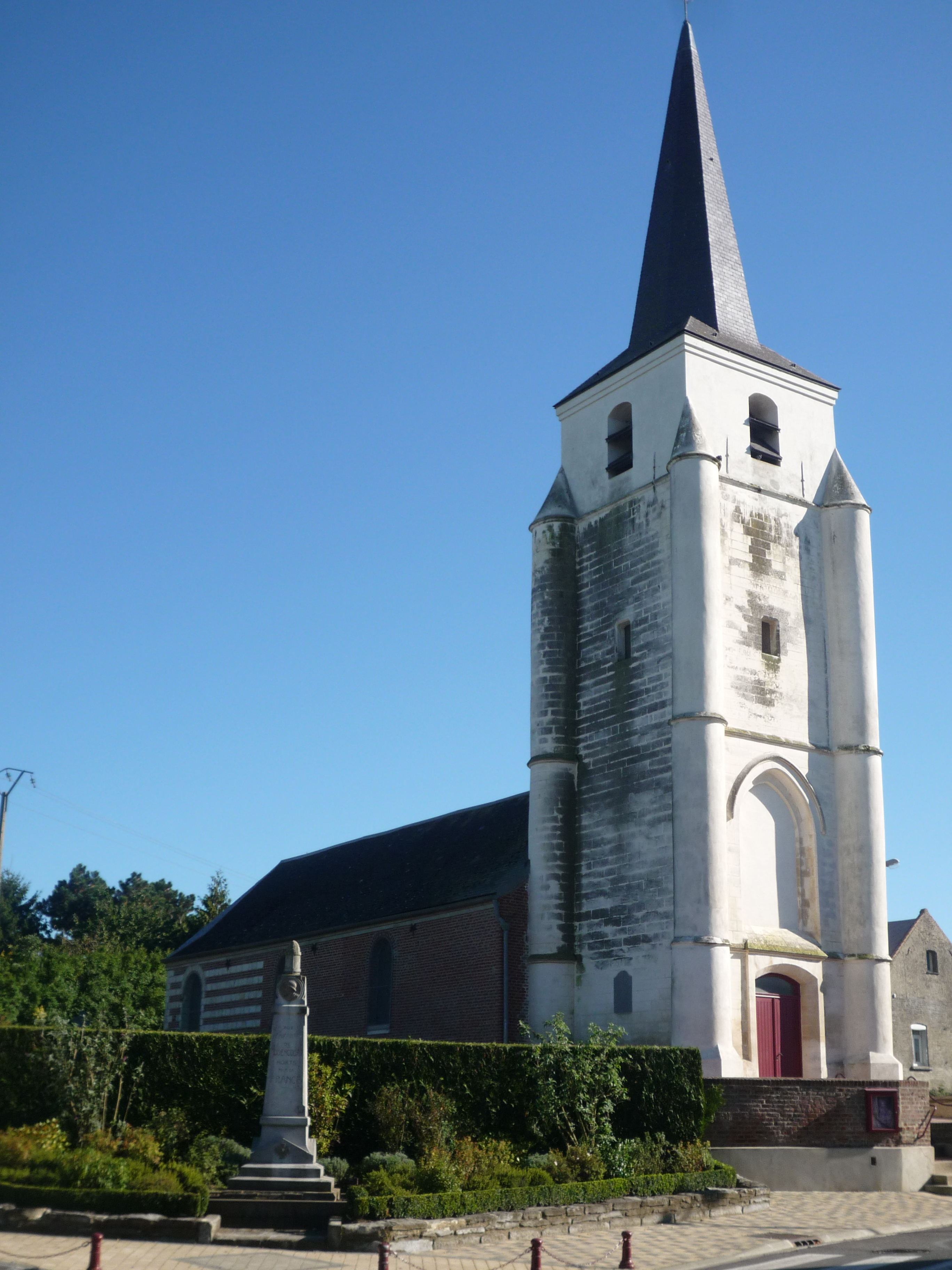 Church Saint-Barthélémy at Audencourt, Caudry, Nord-Pas-de-Calais, France.